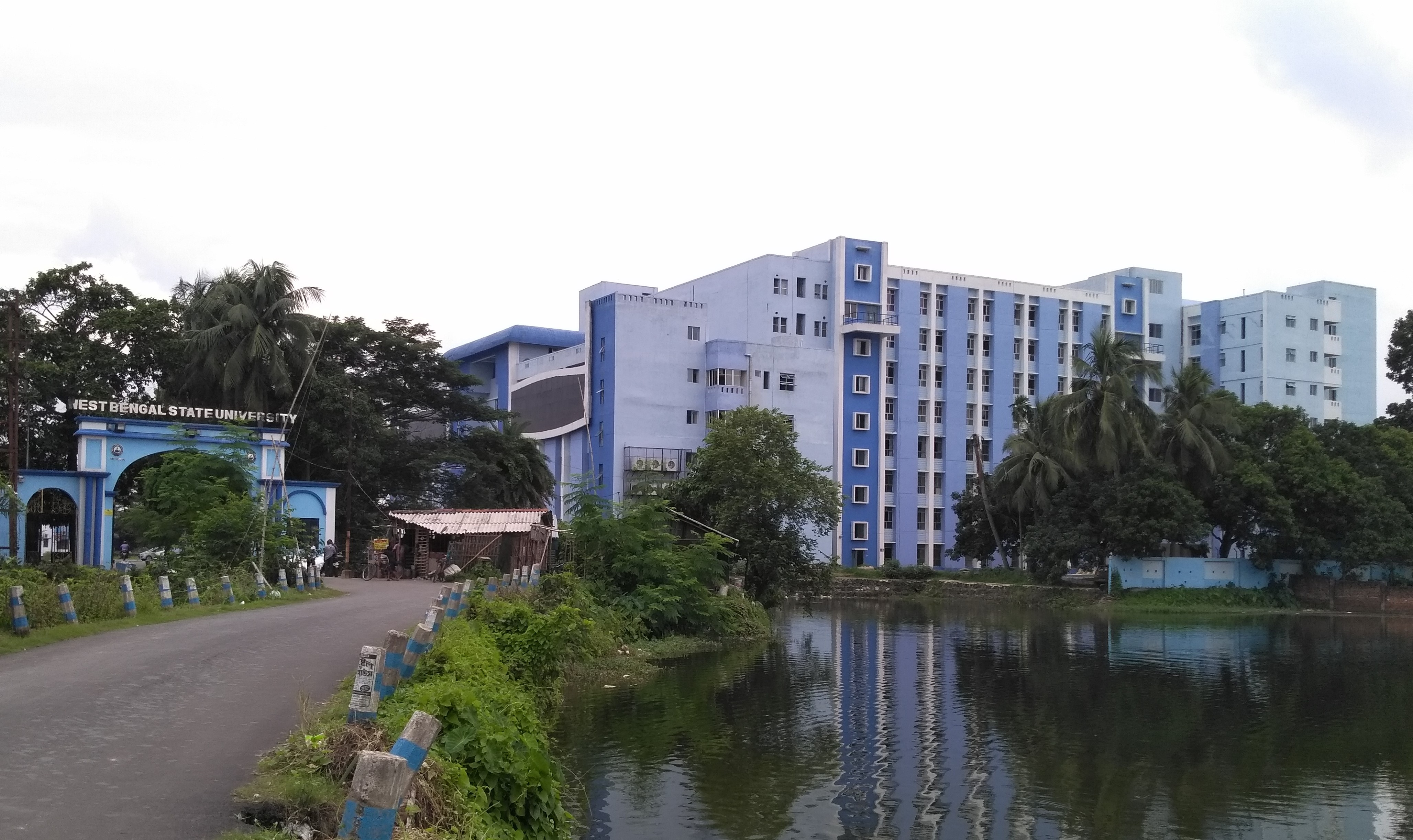 This is the image of West Bengal State University taken from outside of the University